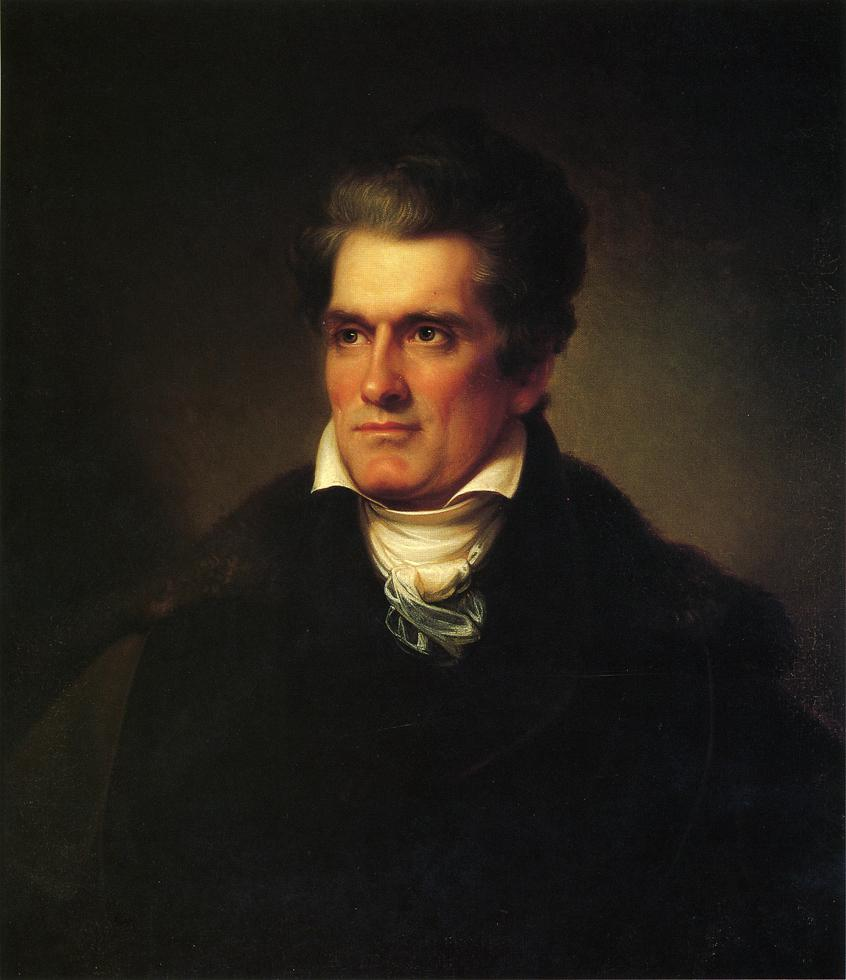 "John C. Calhoun," oil on canvas, by the American artist Rembrandt Peale. 30.88 in. x 25.88 in. Courtesy of the Gibbes Museum of Art, Charleston, South Carolina. Image courtesy of The Athenaeum.